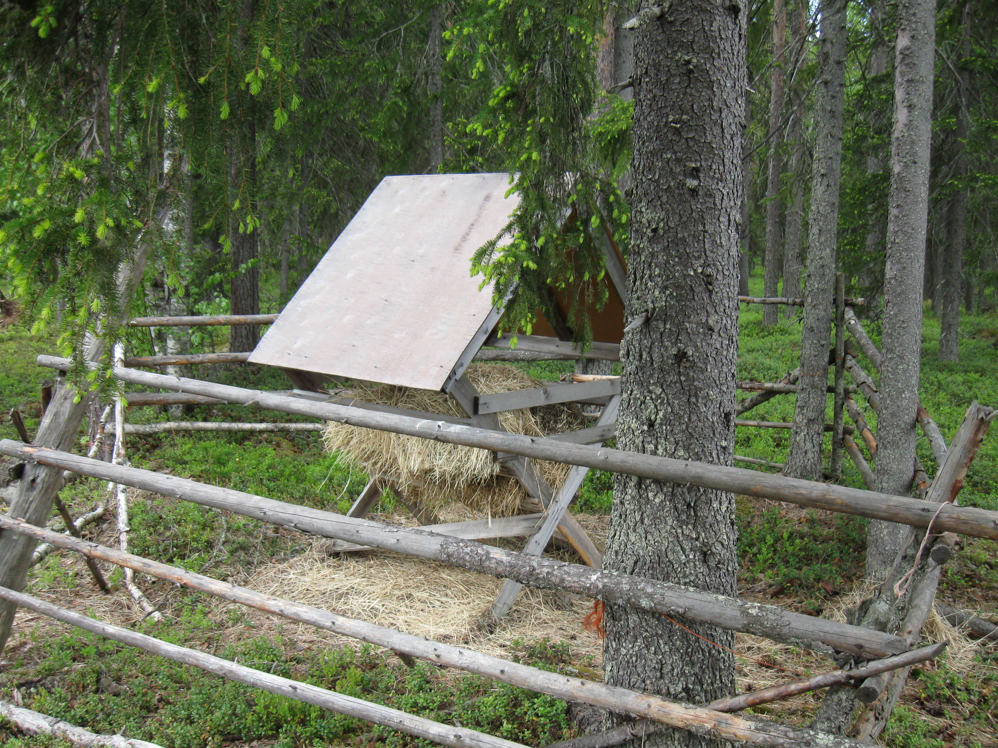 A feeding post for game birds in Finland.